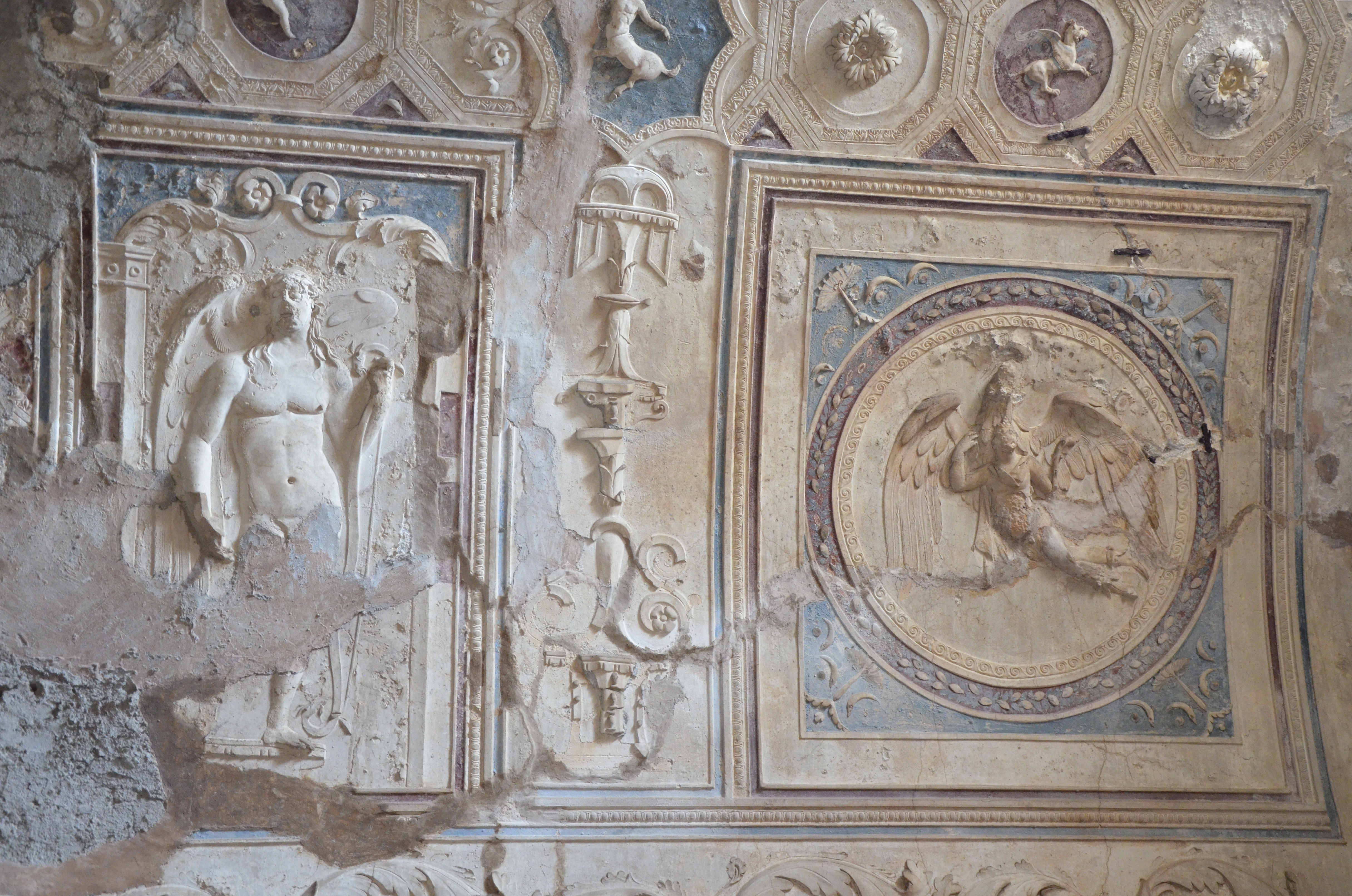 Forum Baths, ceiling plaster stucco in south-east corner of the tepidarium (tepid bath room), Pompeii